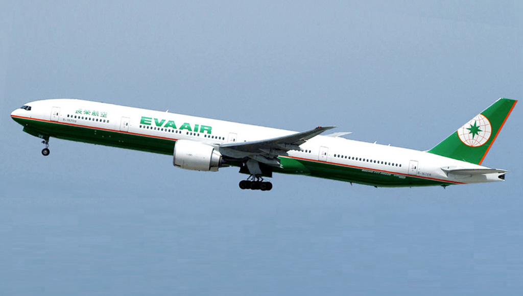 EVA 777. At LAX (Los Angeles Airport) according to Flickr tags.